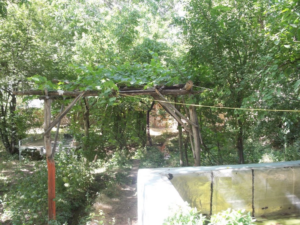 روح اله عسکری